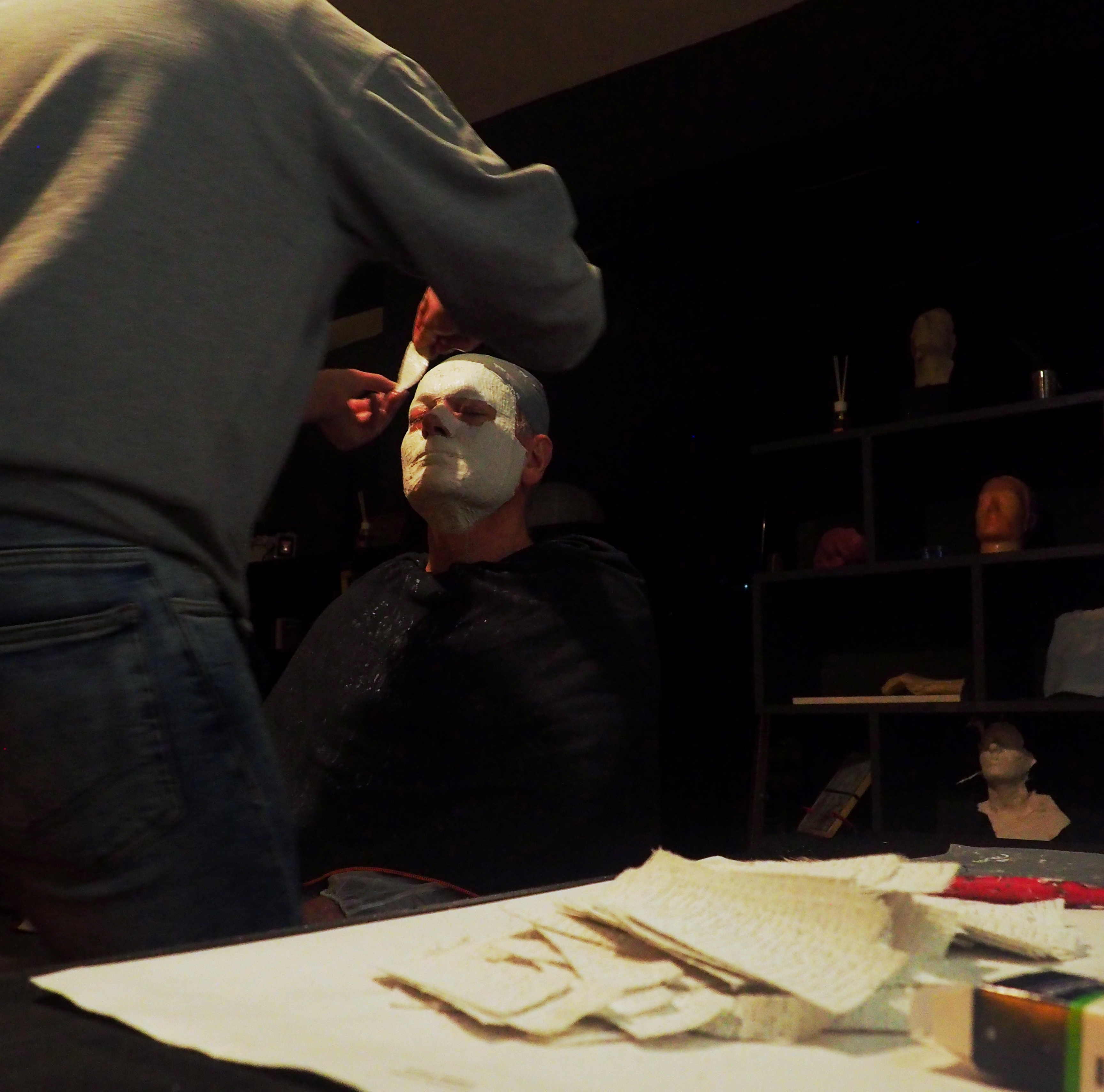 Application of impregnated and wet bandage for artistic face plaster cast, by Eduardo Luogo, at Zona Blu, Milano, Italy